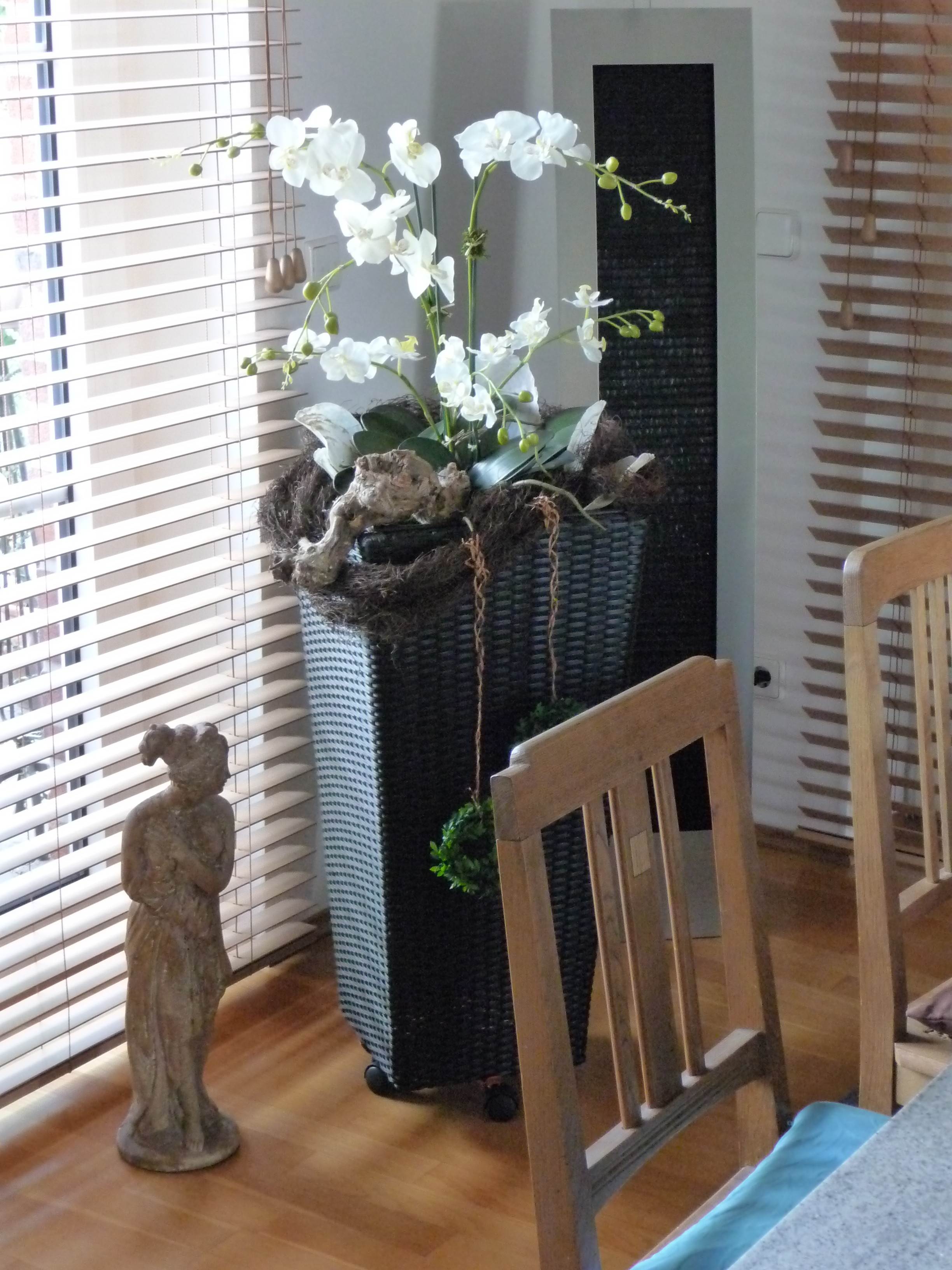 Orchidee of silk flowers